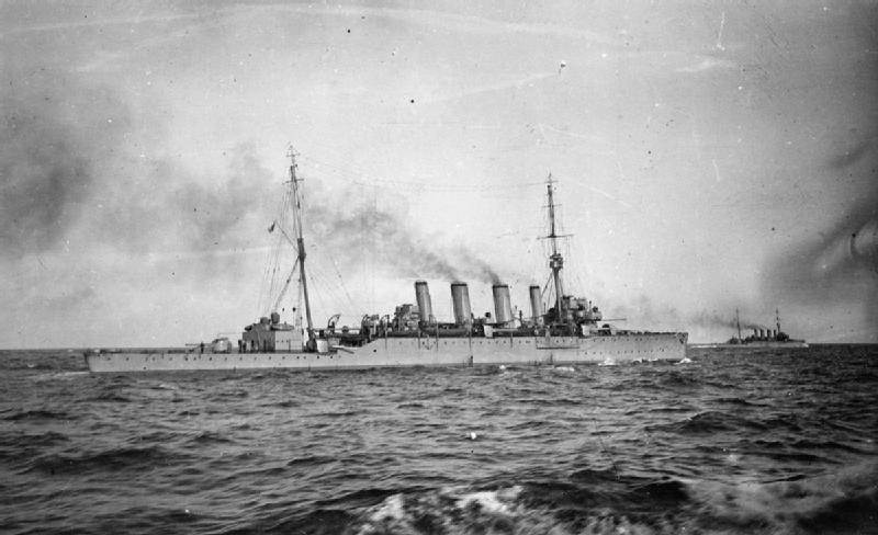 British light cruiser HMS SOUTHAMPTON.